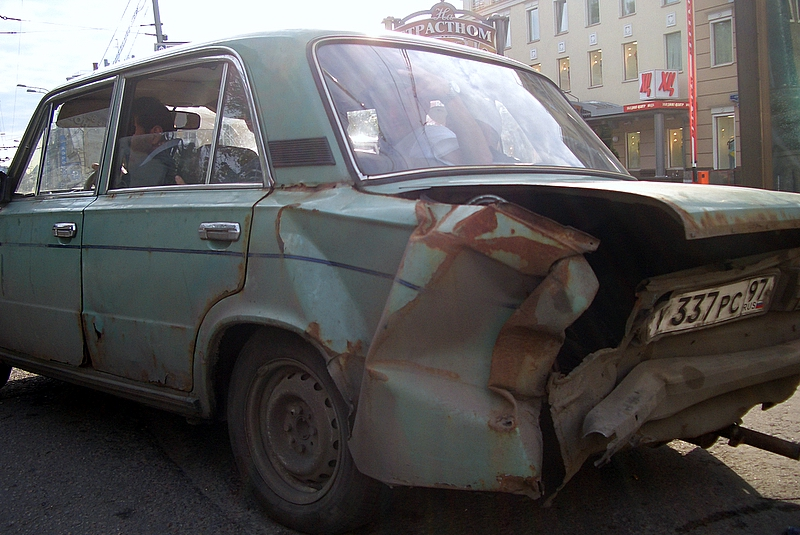 A damaged Lada 1500 (VAZ-2106) taxi cab on the streets of Moscow.